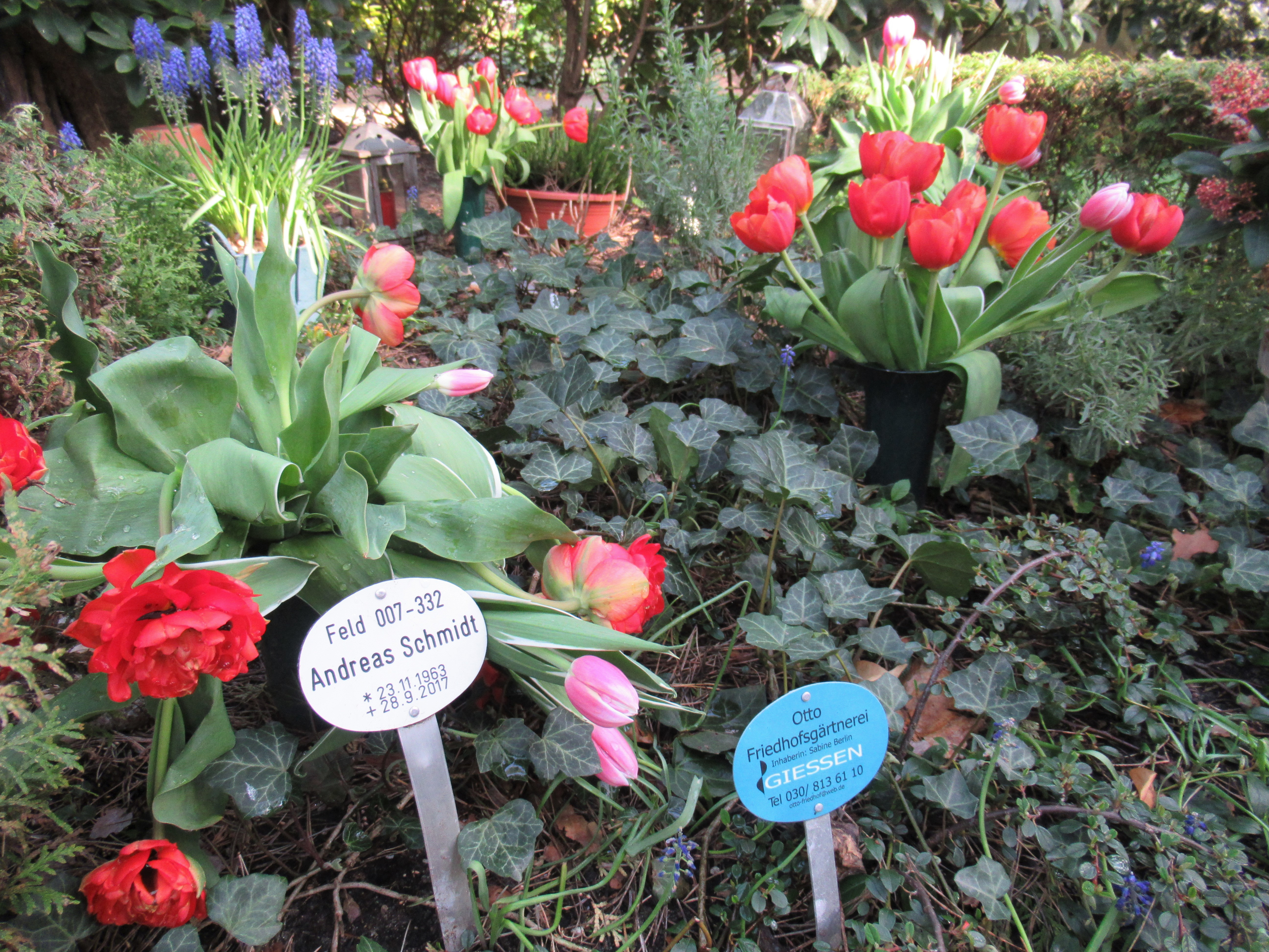 Grave of actor Andreas Schmidt at Waldfriedhof Dahlem in Berlin-Dahlem